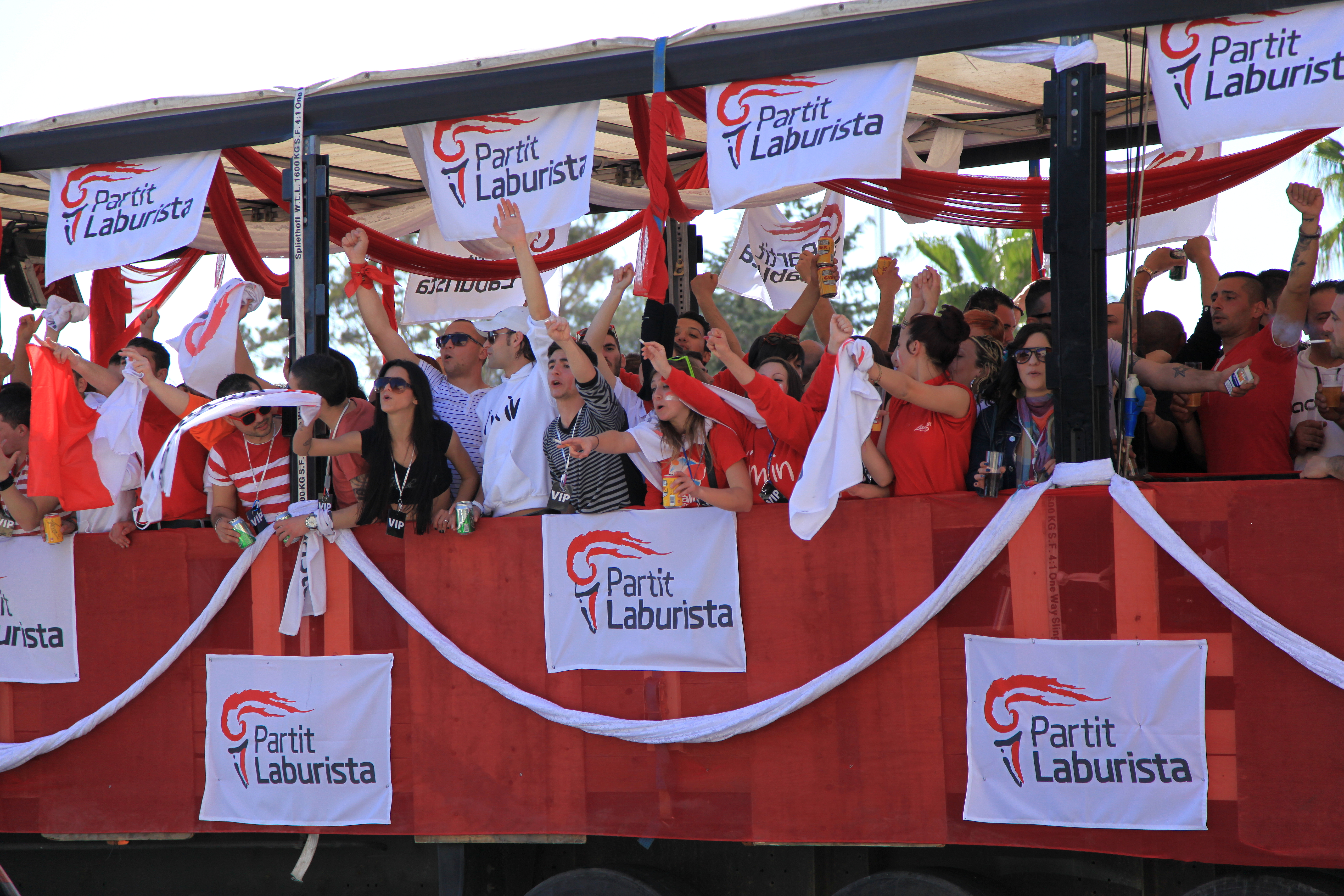 Election celebrations at Pjazza Kastilja in Valletta, Malta